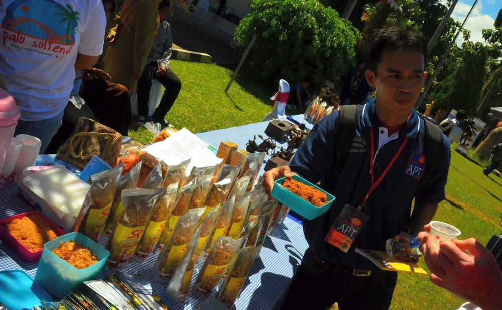 Beef floss for sale at a tourism event in Sulawesi, Indonesia